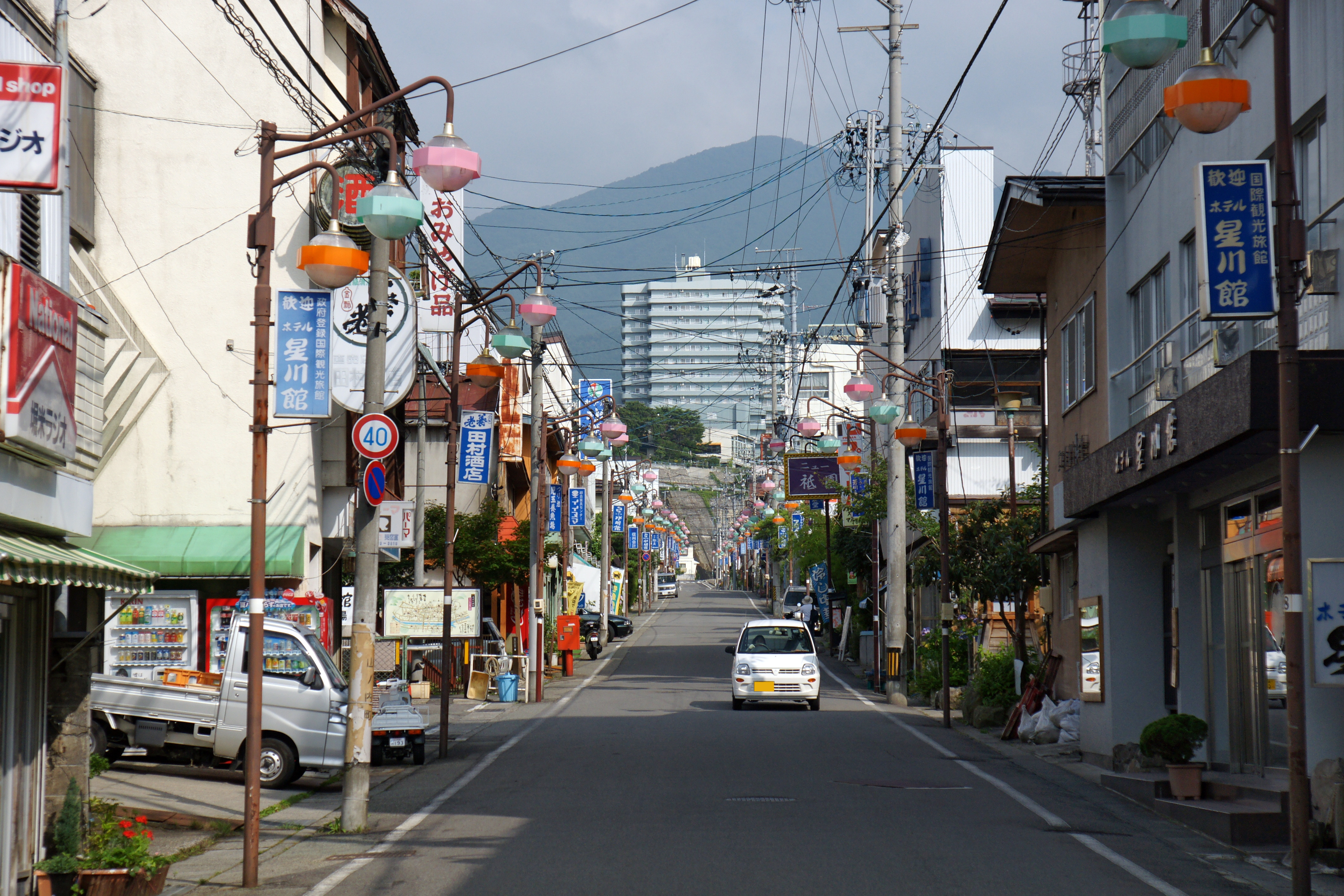 Hoshikawa Onsen ,Yamanouchi, Nagano prefecture, Japan